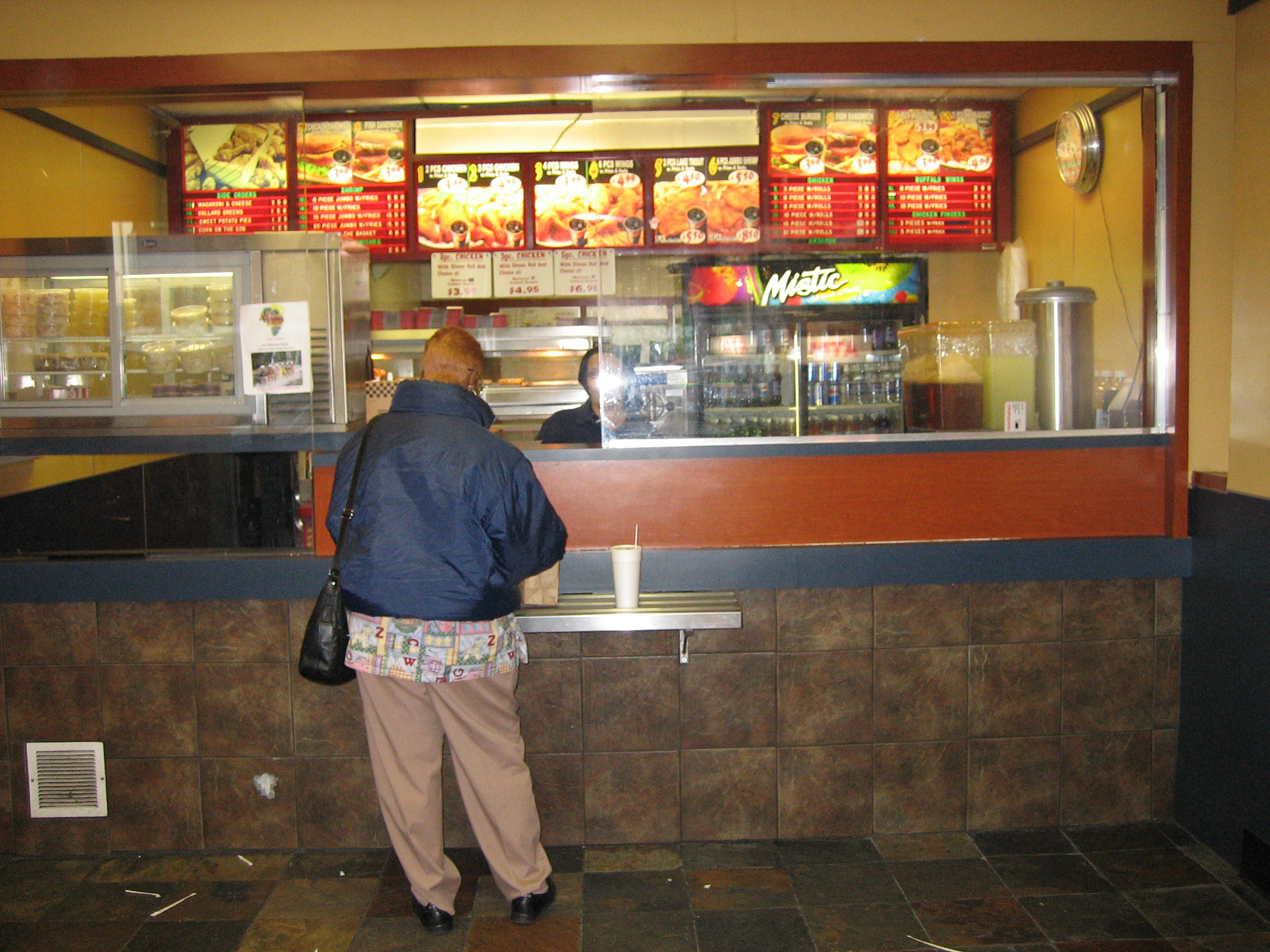 Crown Fried Chicken in Philadelpia, Pennsylvania.